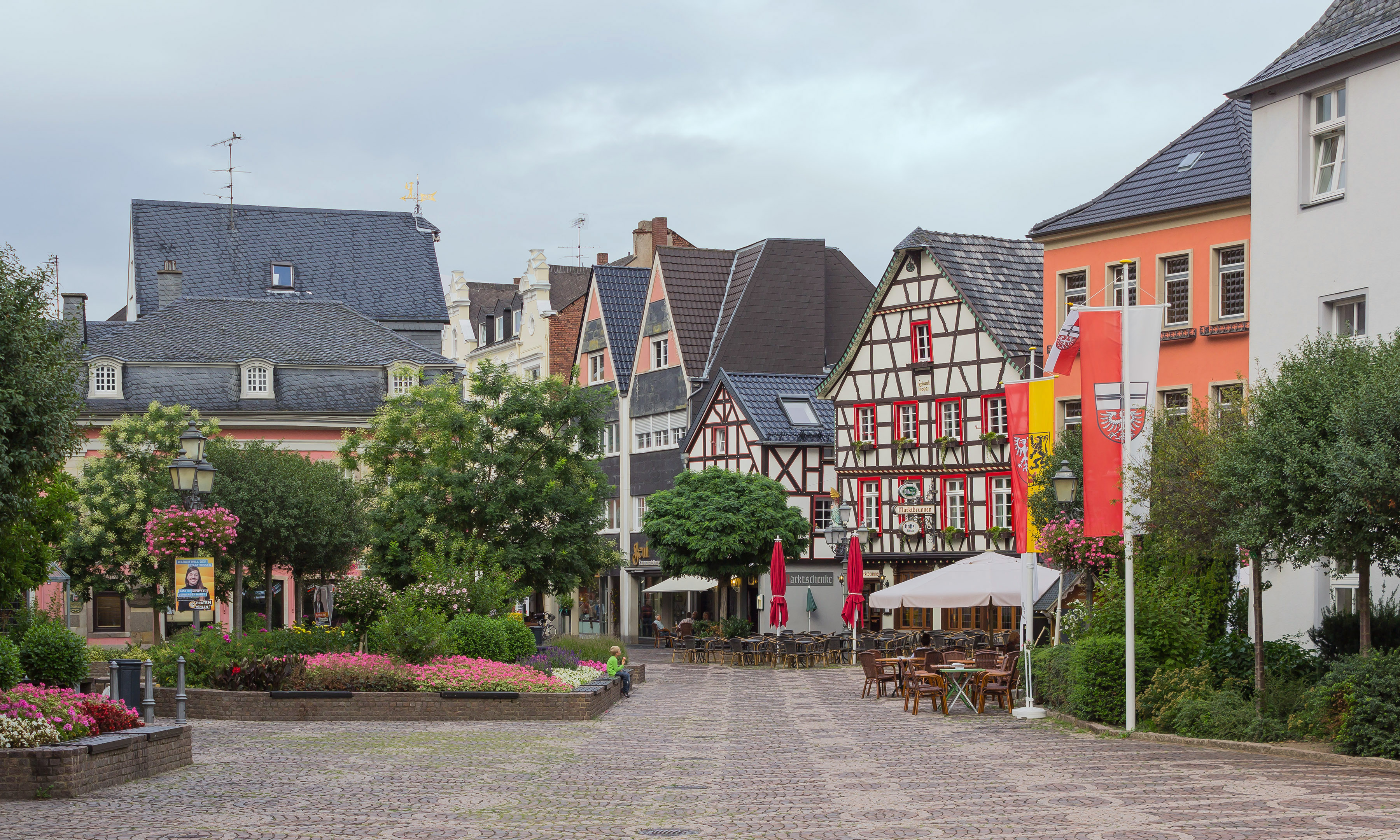 A view on Niederhutstrasse from Marktplatz in Ahrweiler. Visible houses include Marktplatz 2 and Niederhutstrasse 70.